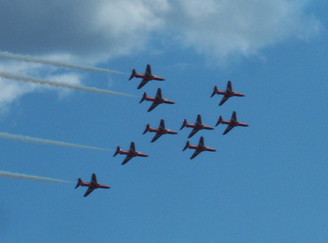 The red Arrows in 'Typhoon' formation at the 2009 Sunderland International Airshow